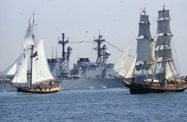 Providence and Unicorn at the tall ships parade for Boston's 350th anniversary in 1980. original flickr description: Title: Tall Ships in Boston Harbor Creator: Peter H. Dreyer Date: 1980 May 30 Source: Collection 9800.007, Peter H. Dreyer slide collection File name: 9800007_363 Photographer: Peter H. Dreyer Rights: Public Domain, Please credit Peter H. Dreyer Citation: Peter H. Dreyer slide collection, Collection #9800.007, City of Boston Archives, Boston